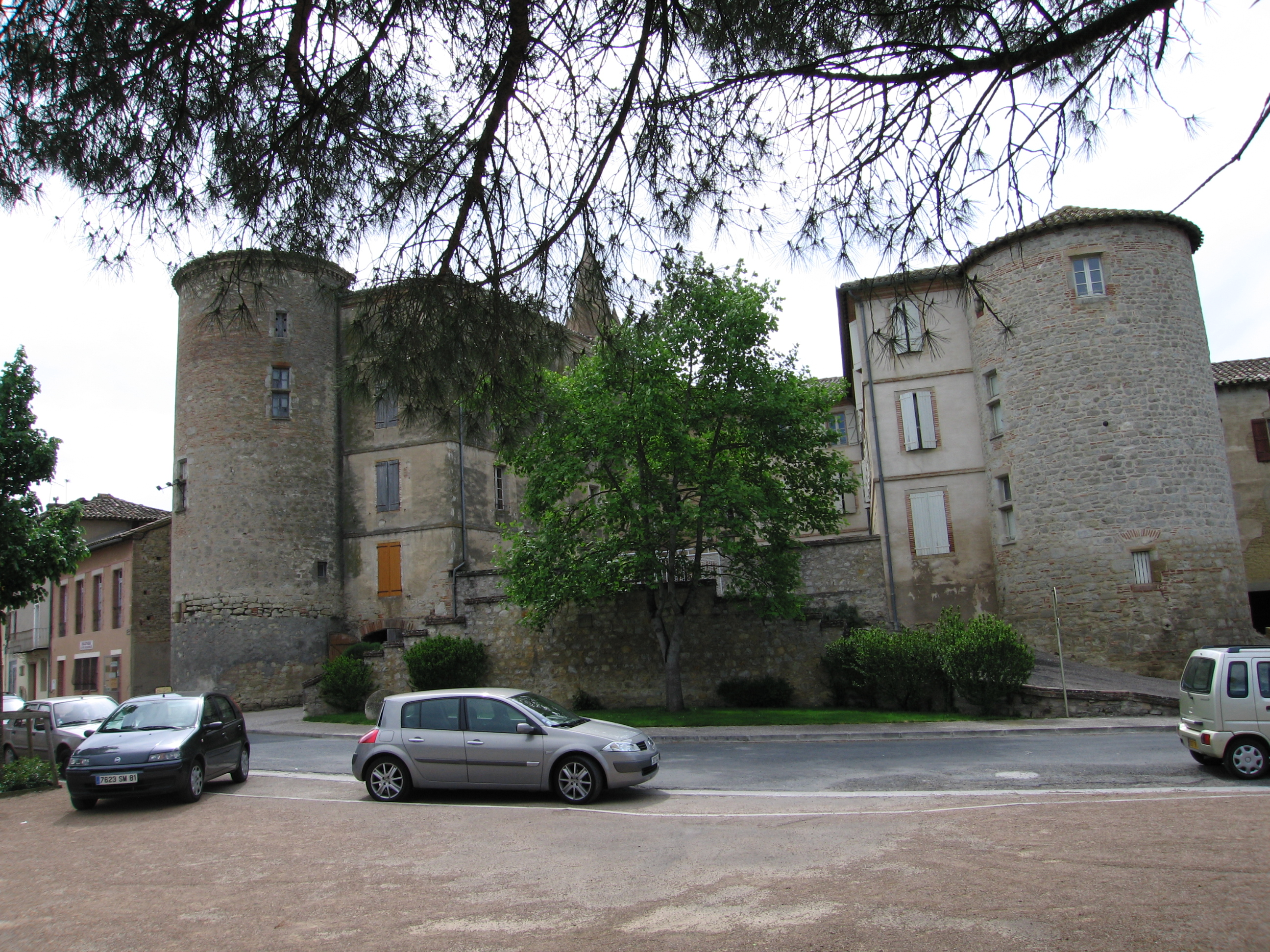 Remains of the Castle of Salvagnac, Tarn, France